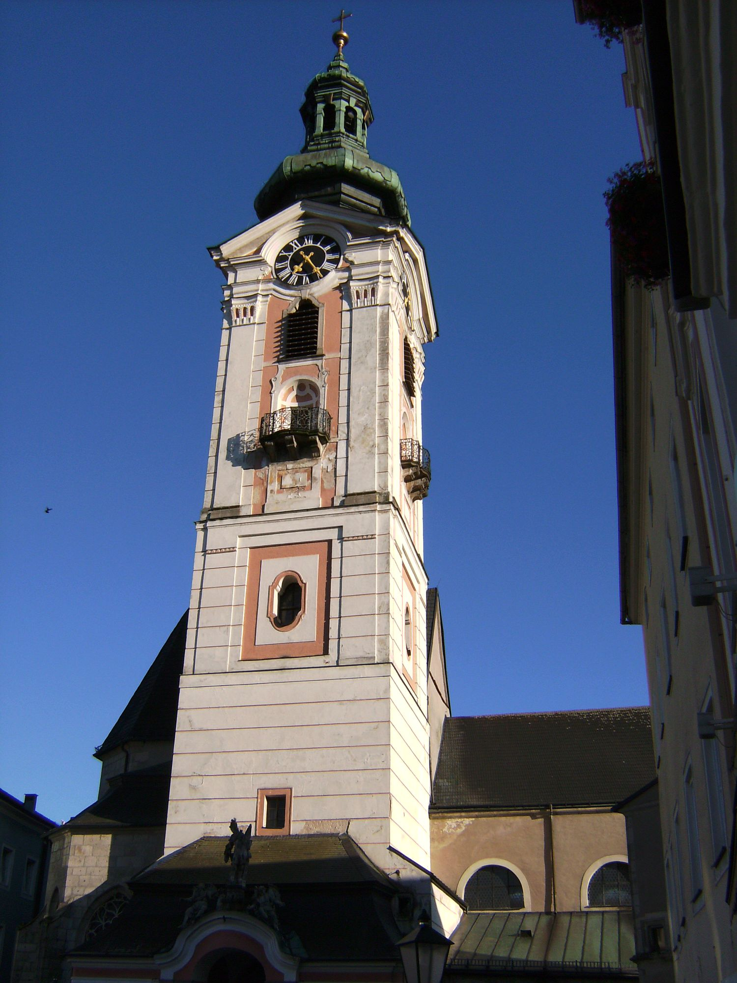 Tower of Church St. Katarina Freistadt